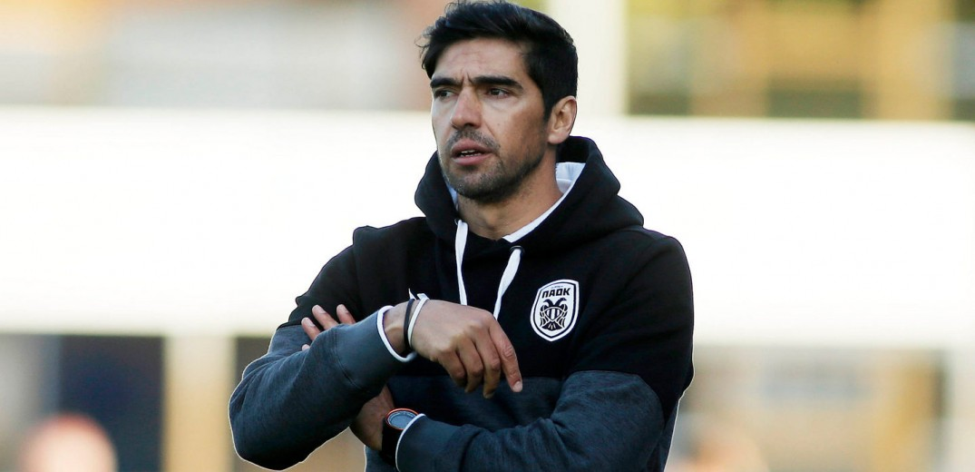 Abel Ferreira with PAOK